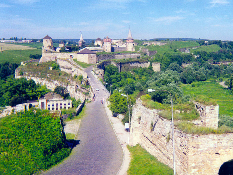 The fortress of Kamieniec Podolski, as seen from the town of the same name. The bastion on the right was guarding the bridgehead leading to the fortress. In the far right the "New Castle" is visible. Picture taken in 1998.